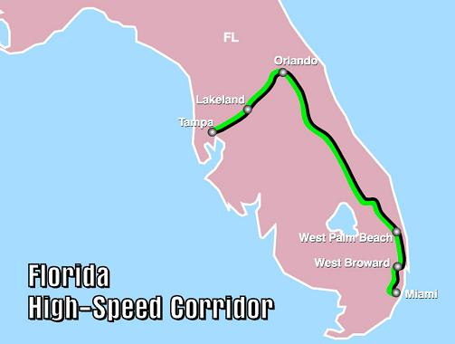 Map of Florida Corridor, a federally designated high-speed rail corridor.